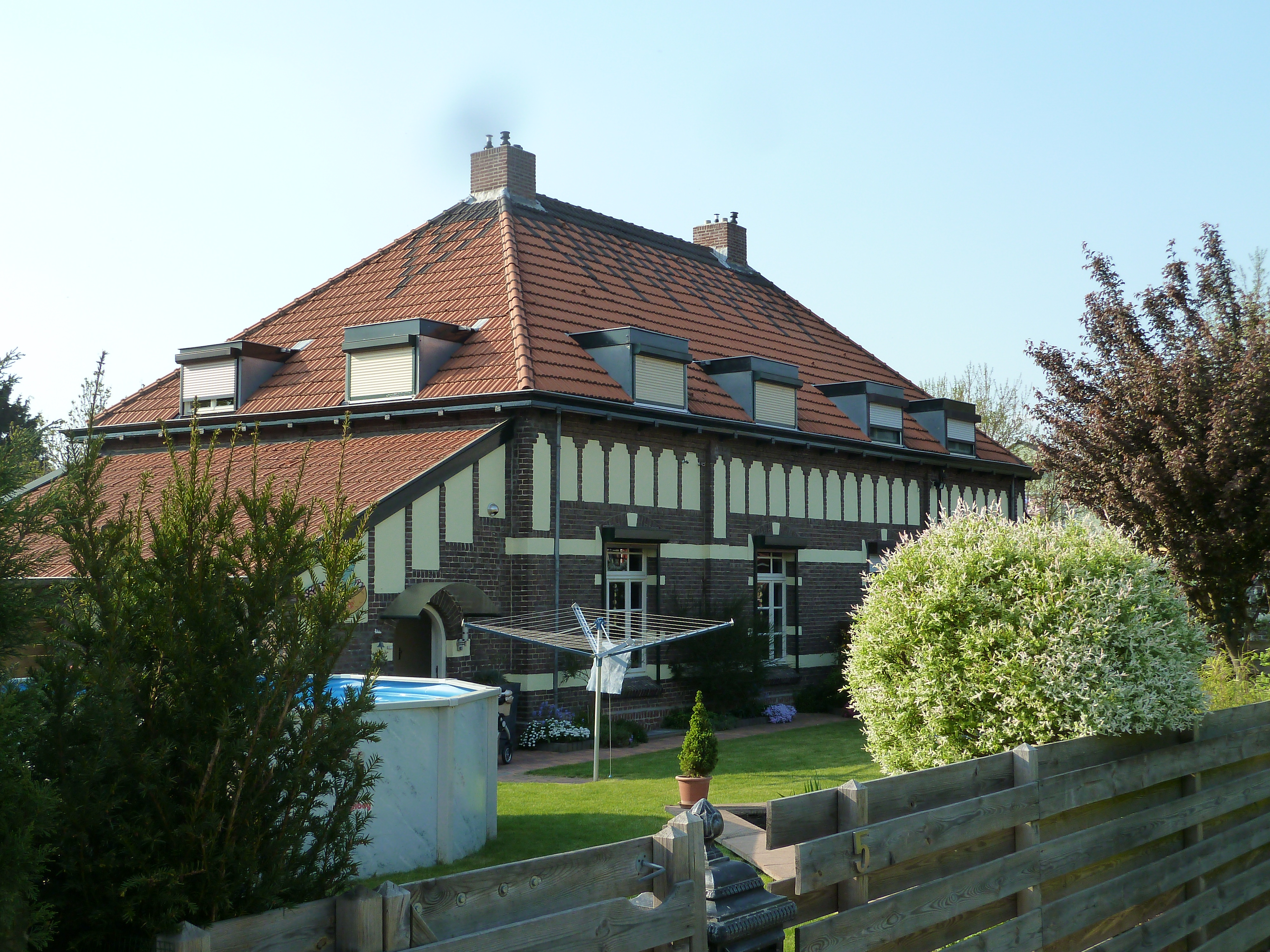 Grasbroek 5-7, Heerlen, Limburg, the Netherlands